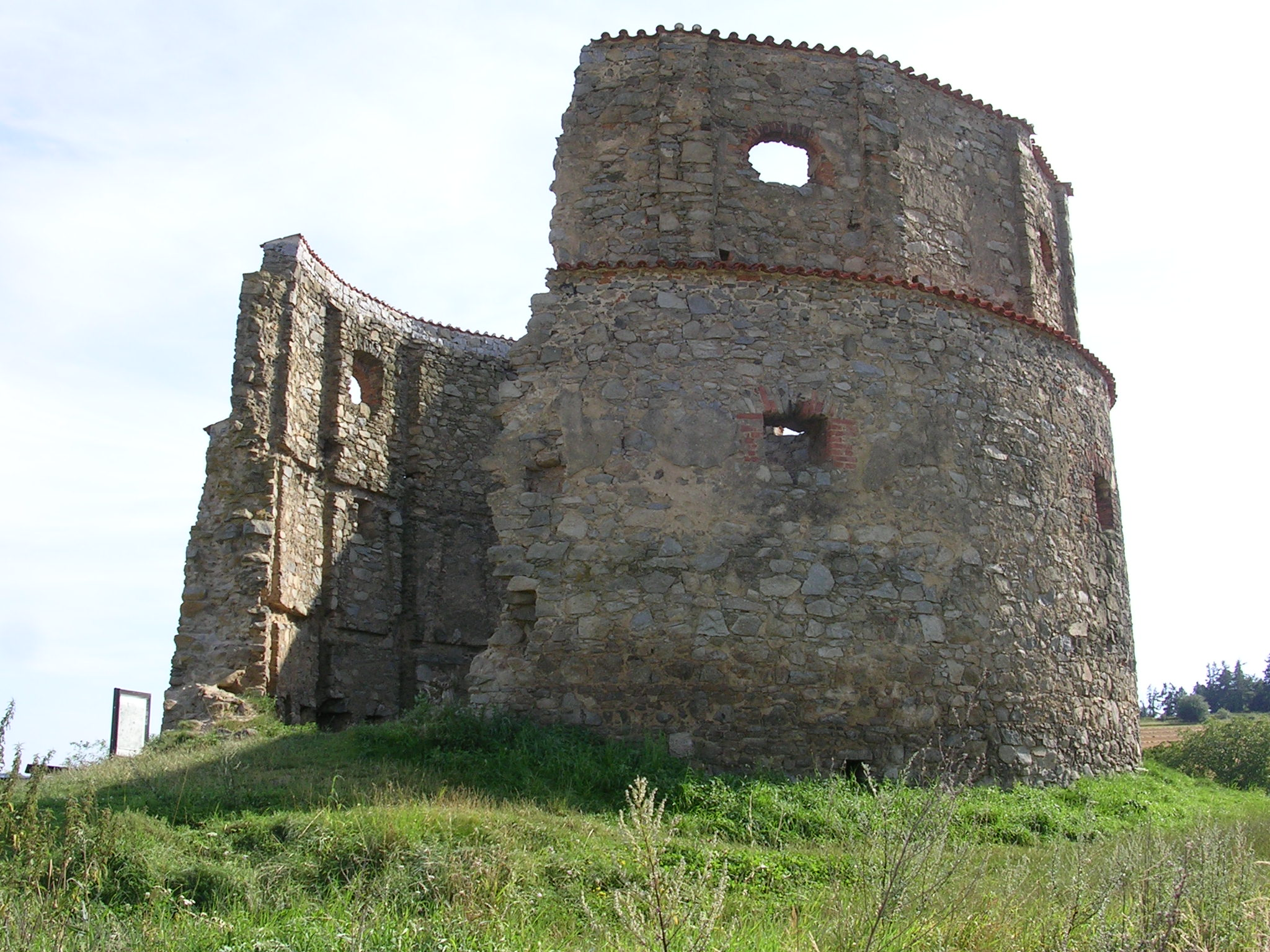 Příčovy, Příbram District, Central Bohemian Region, the Czech Republic. A ruin of windmill.